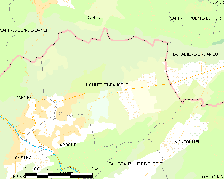 Map commune FR insee code 34174.png - Moulès-et-Baucels